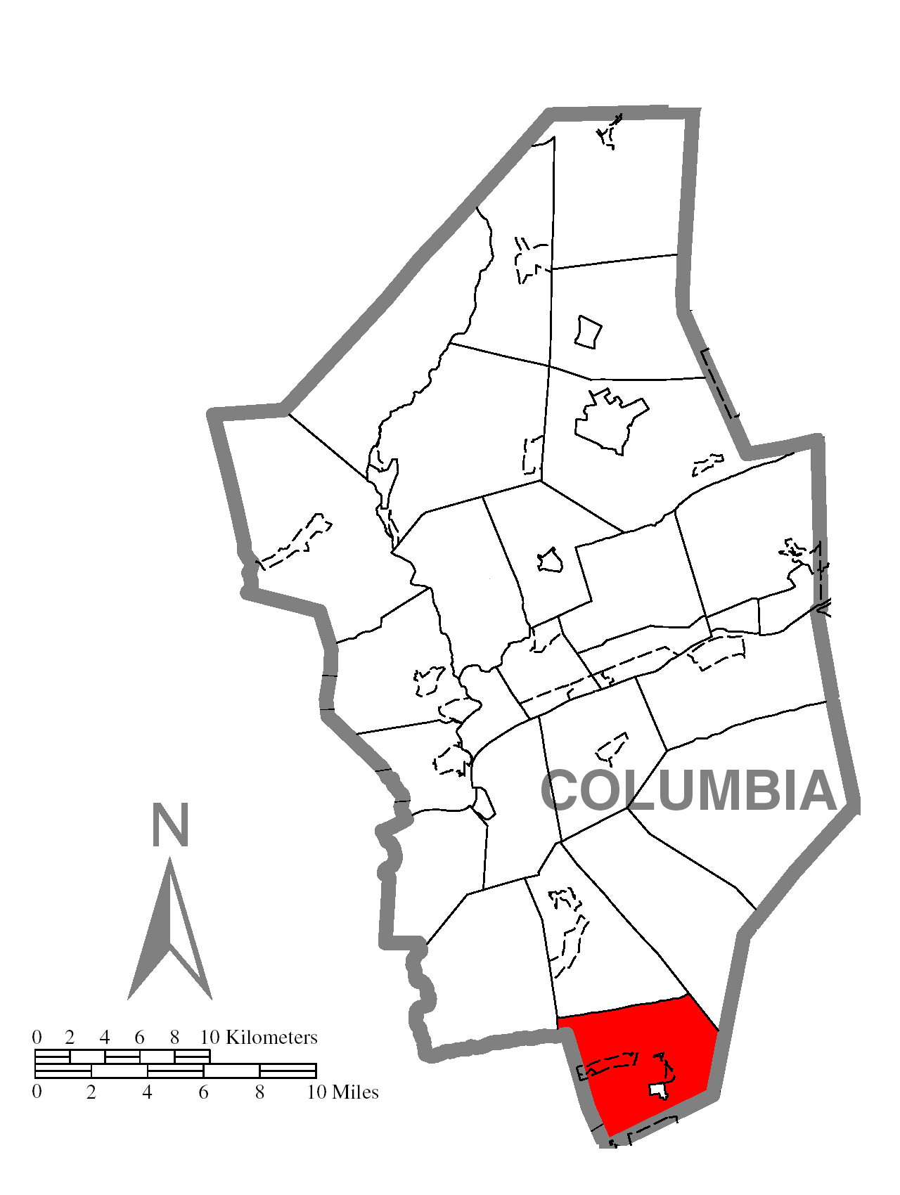 A map of Columbia County showing Conyngham Township, Pennsylvania (alternate) highlighted on the map.